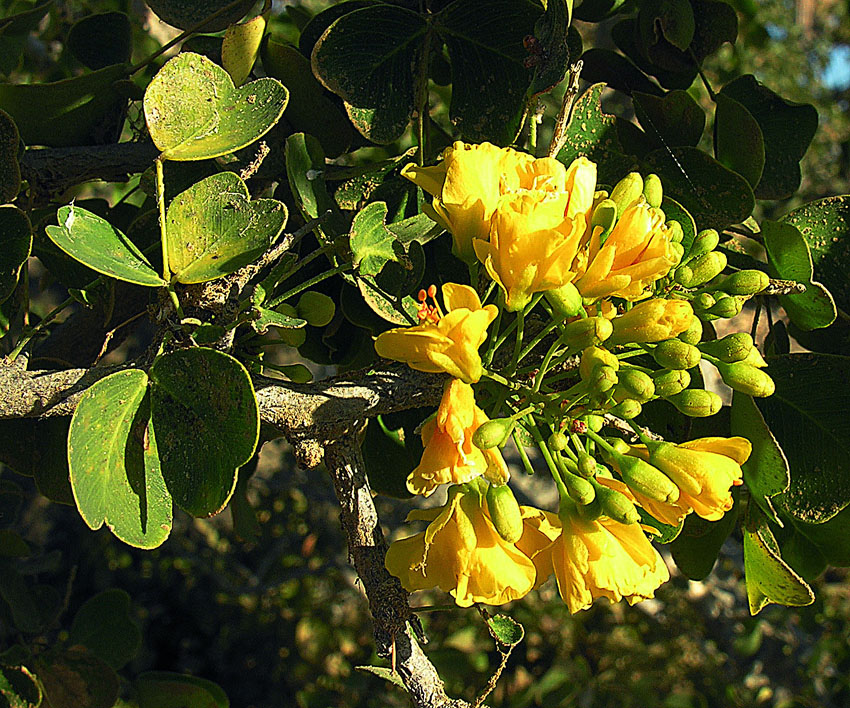 Native from Mexico to Venezuela and known as Palo de Tinto. Photo from Baja California. In context at